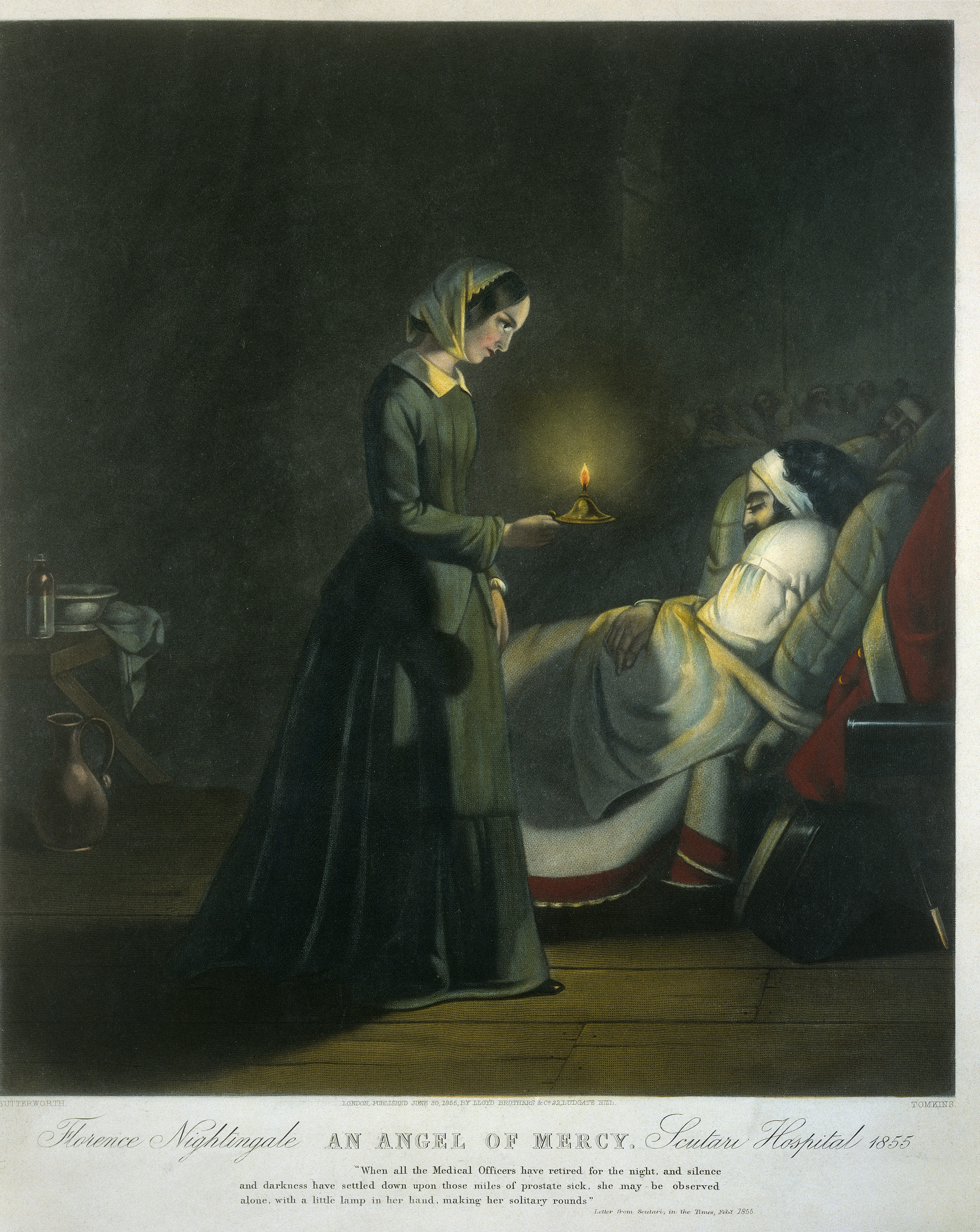 NIGHTINGALE, Florence {1820-1910} Crimean War: Florence Nightingale with her candle making the night round of the wards at Scutari hospital. Coloured mezzotint, c. 1855, by Tomkins after Butterworth. Florence Nightingale an angel of mercy. Scutari hospital 1855. ... Butterworth. Tomkins. Lettering continues: "when all the medical officers have retired for the night, and silence and darkness have settled down upon thosse miles of prostrate sick, she may be observed alone, with a little lamp in her hand, making her solitary rounds" letter from Scutari, in the Times, February 1855. Iconographic Collections Keywords: burgess, portraits, 2151.8; nightingale, florence {1820-19; women in medicine; Nurses; Hospitals, Military; Military Nursing; Military Personnel; Crimean War; Florence Nightingale; J. Butterworth; Charles Algernon Tomkins